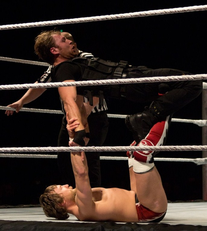 Daniel Bryan puts Dean Ambrose in a surfboard hold during a WWE house show on February 2, 2013 in Montgomery, Alabama.